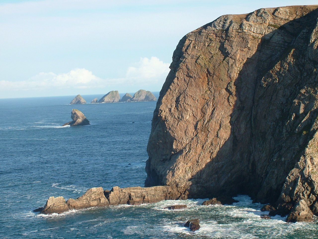 Stags of Broadhaven on the North Mayo coast Kilcommon parish Erris